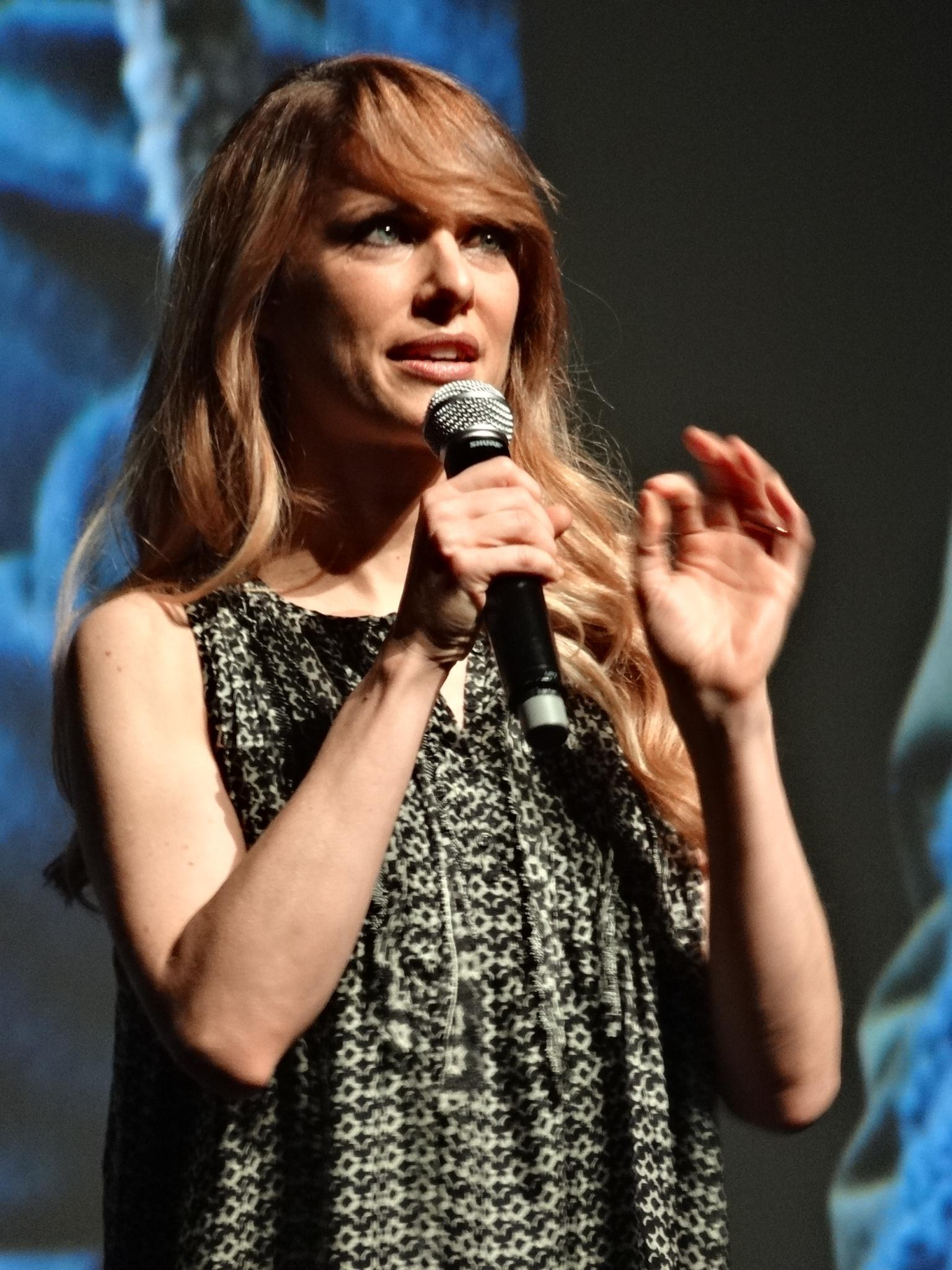 Lynn Shelton at Festival Deauville 2012